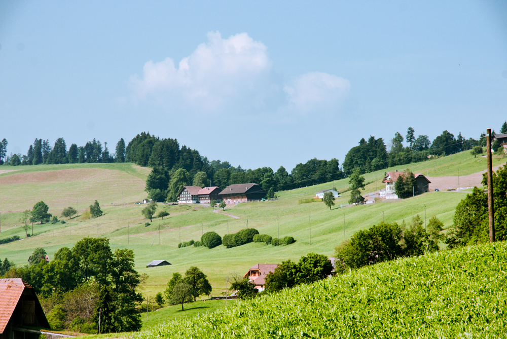 Rengg